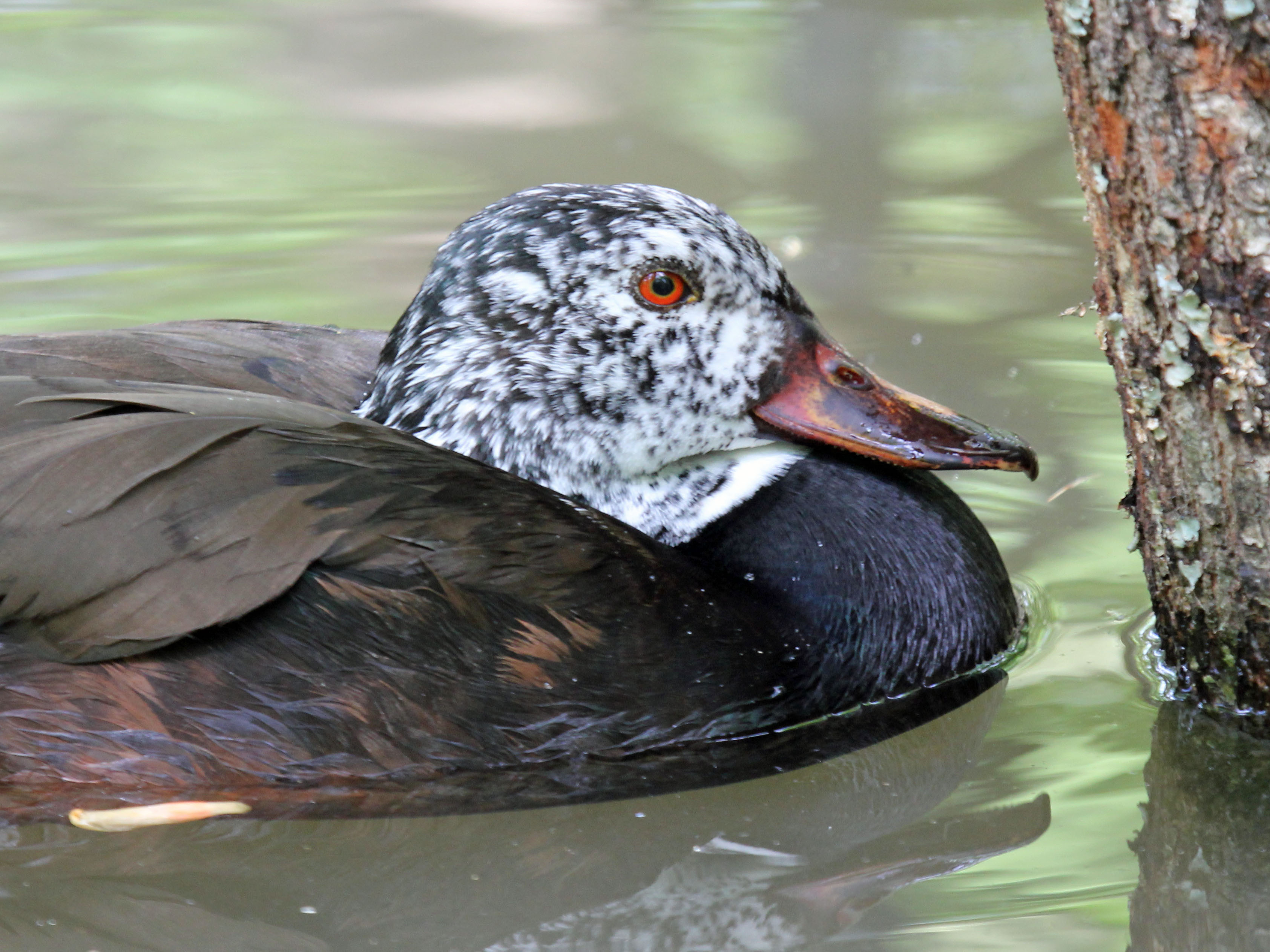 Male White-winged Duck or White-winged Wood Duck (Asarcornis scutulata) - Sylvan Heights Waterfowl Park, North Carolina